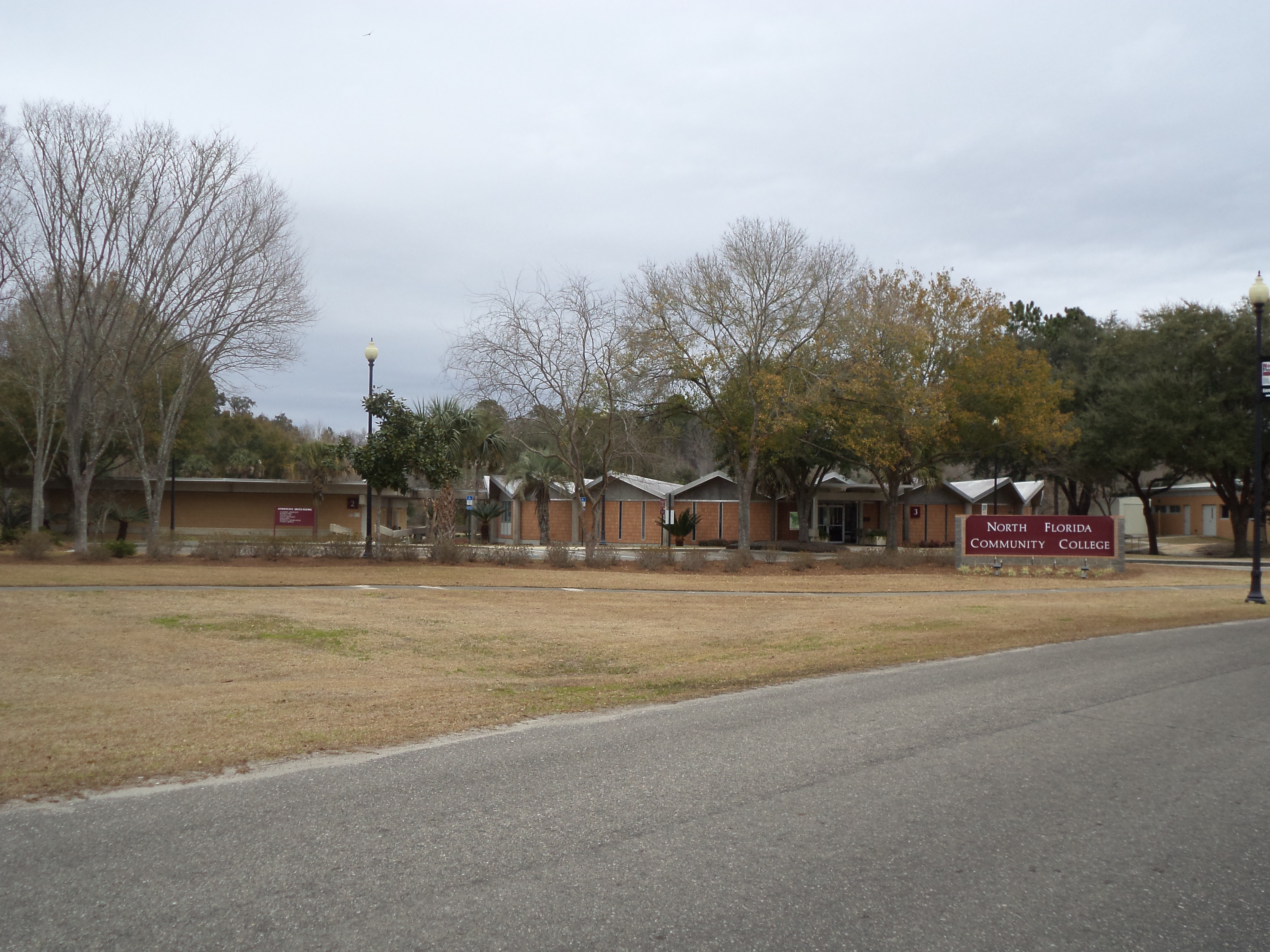 North Florida Community College, Madison, Madison County, Florida